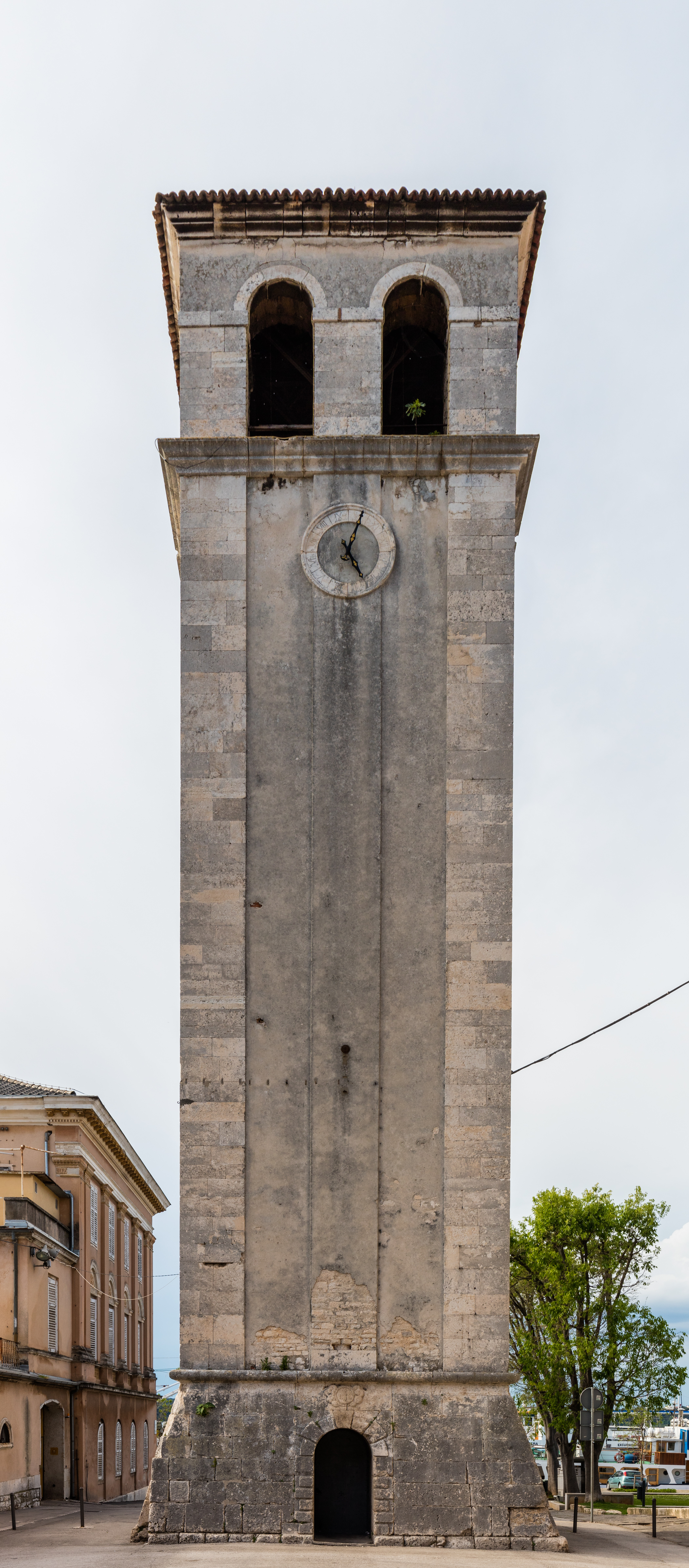 Pula cathedral, Croatia. This is a a photo of a cultural heritage in Croatia with ID: Z-4448